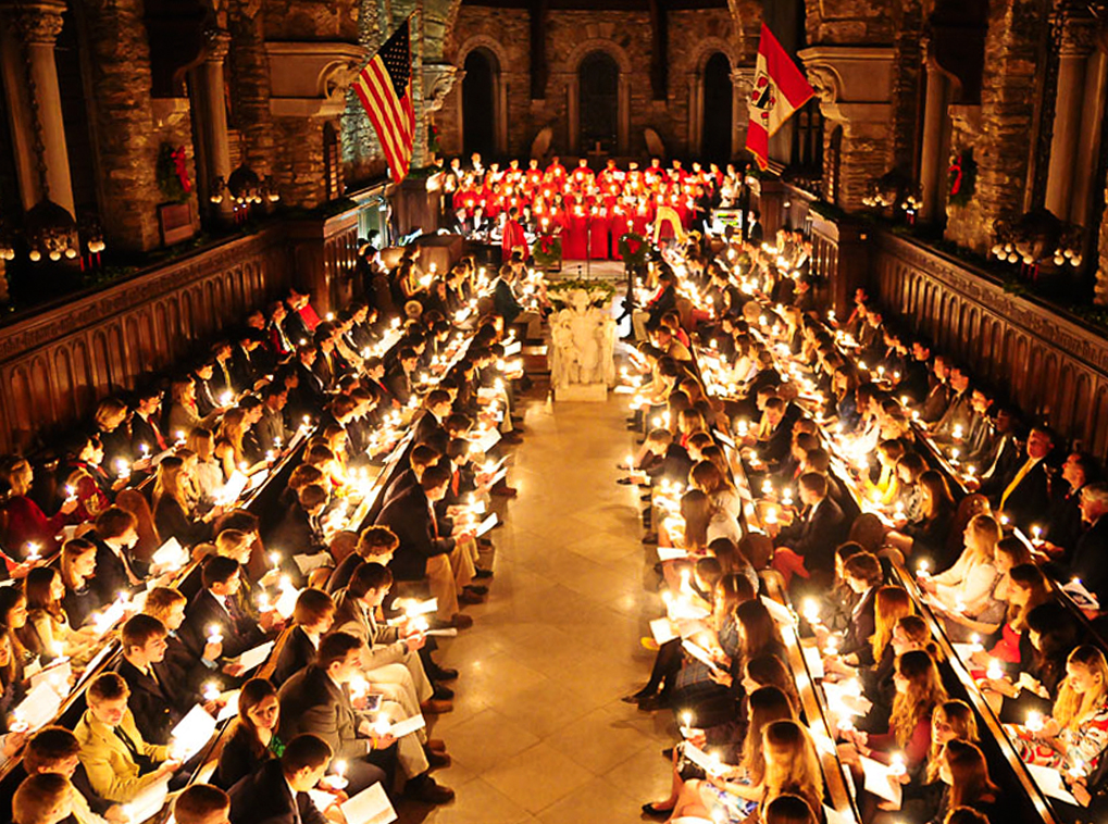 Photo of holiday singing in Clark Memorial Chapel at Pomfret School, Pomfret, CT, USA